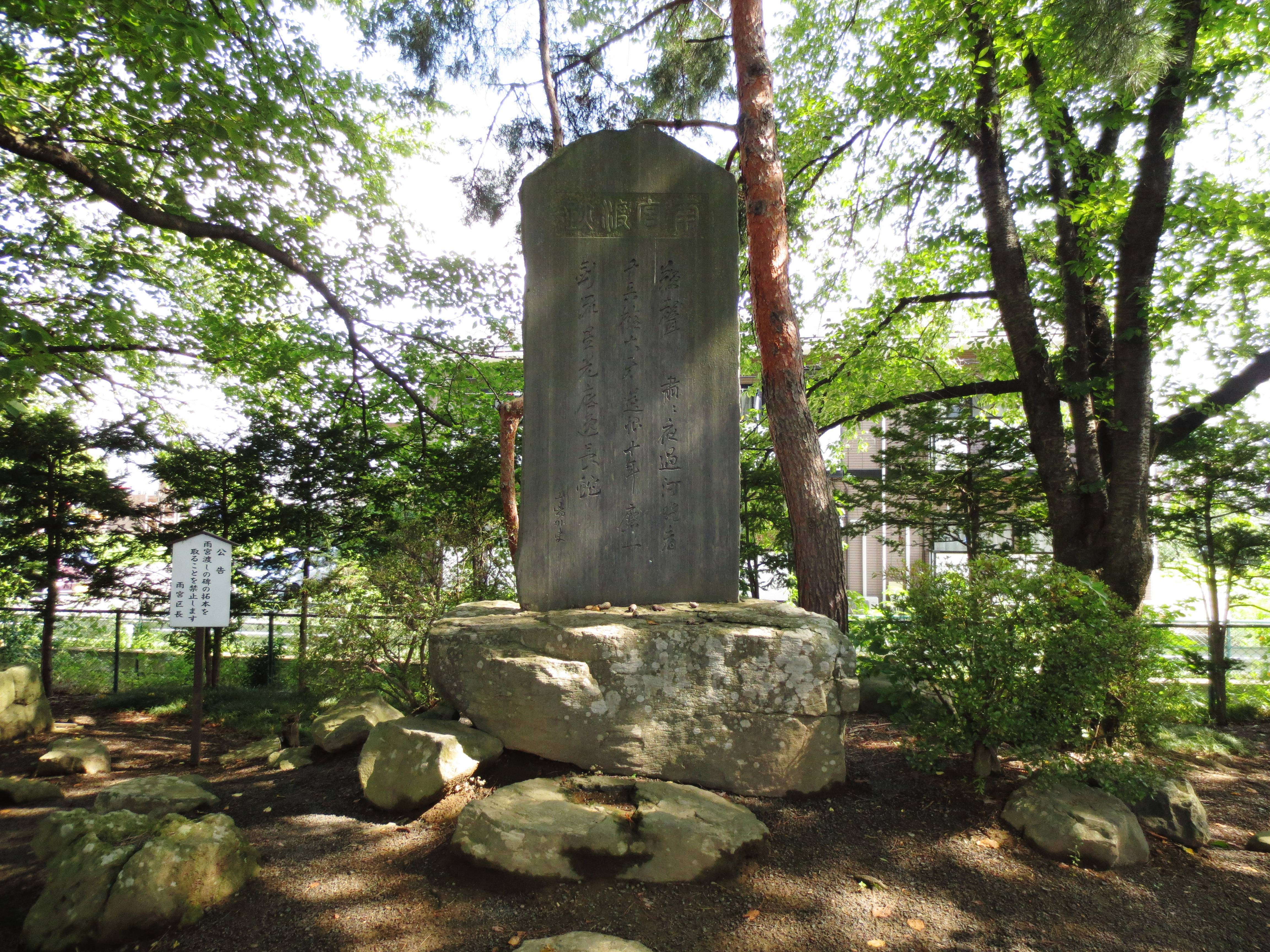 Amenomiyanowatashi.